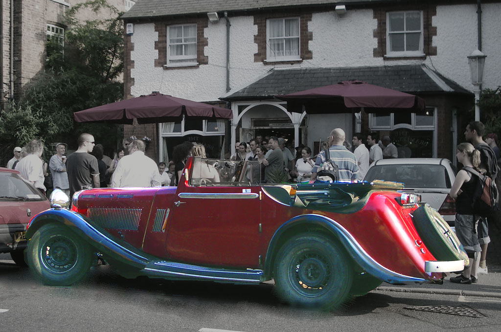 Brough Superior 4-litre (identified by ventilation of footwell)